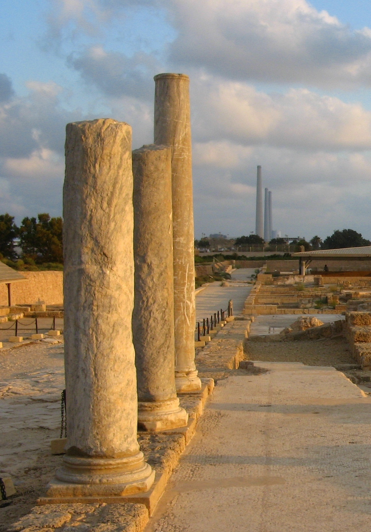 Israel: Ancient columns in Caesarea vs the modern chimneys of the Orot Rabin Power Station in Hadera